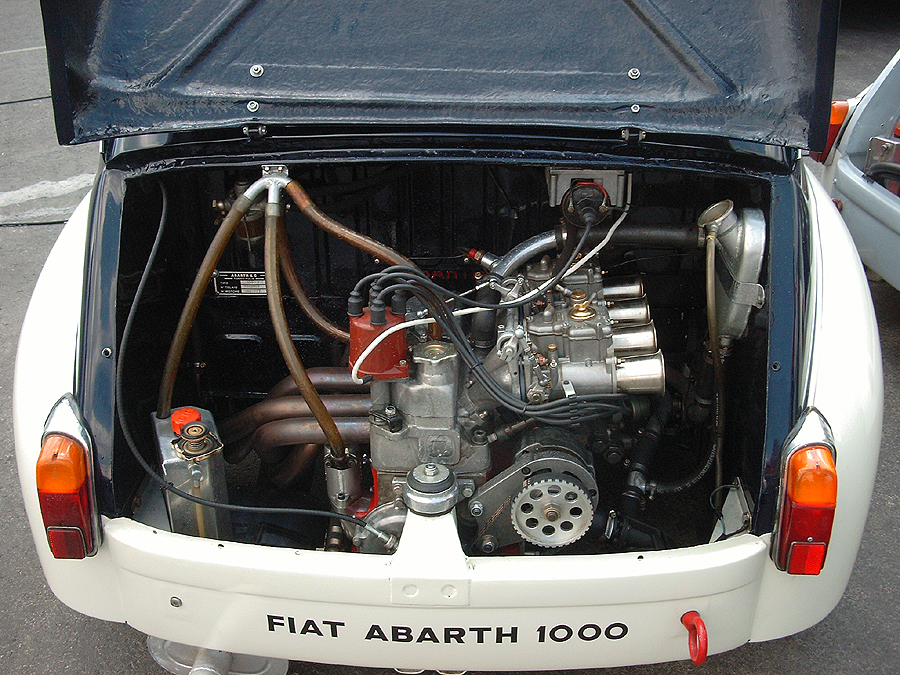 Fiat Abarth 1000 Engine